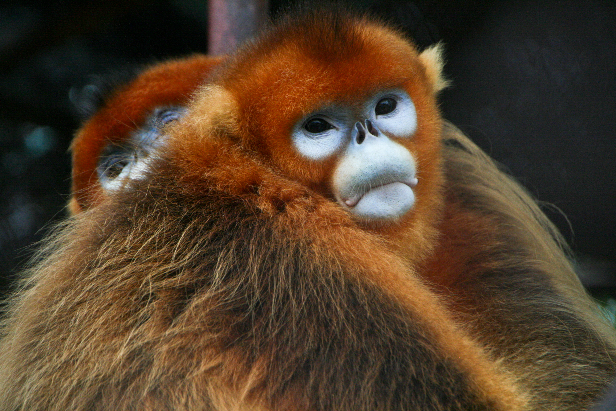 Golden Snub-nosed Monkeys, Rhinopithecus roxellana in captivity outside of Xi'An, China. Endangered.